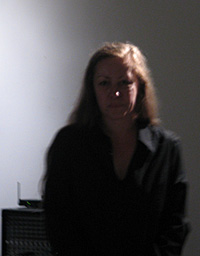 Russian composer Iraida Yusupova